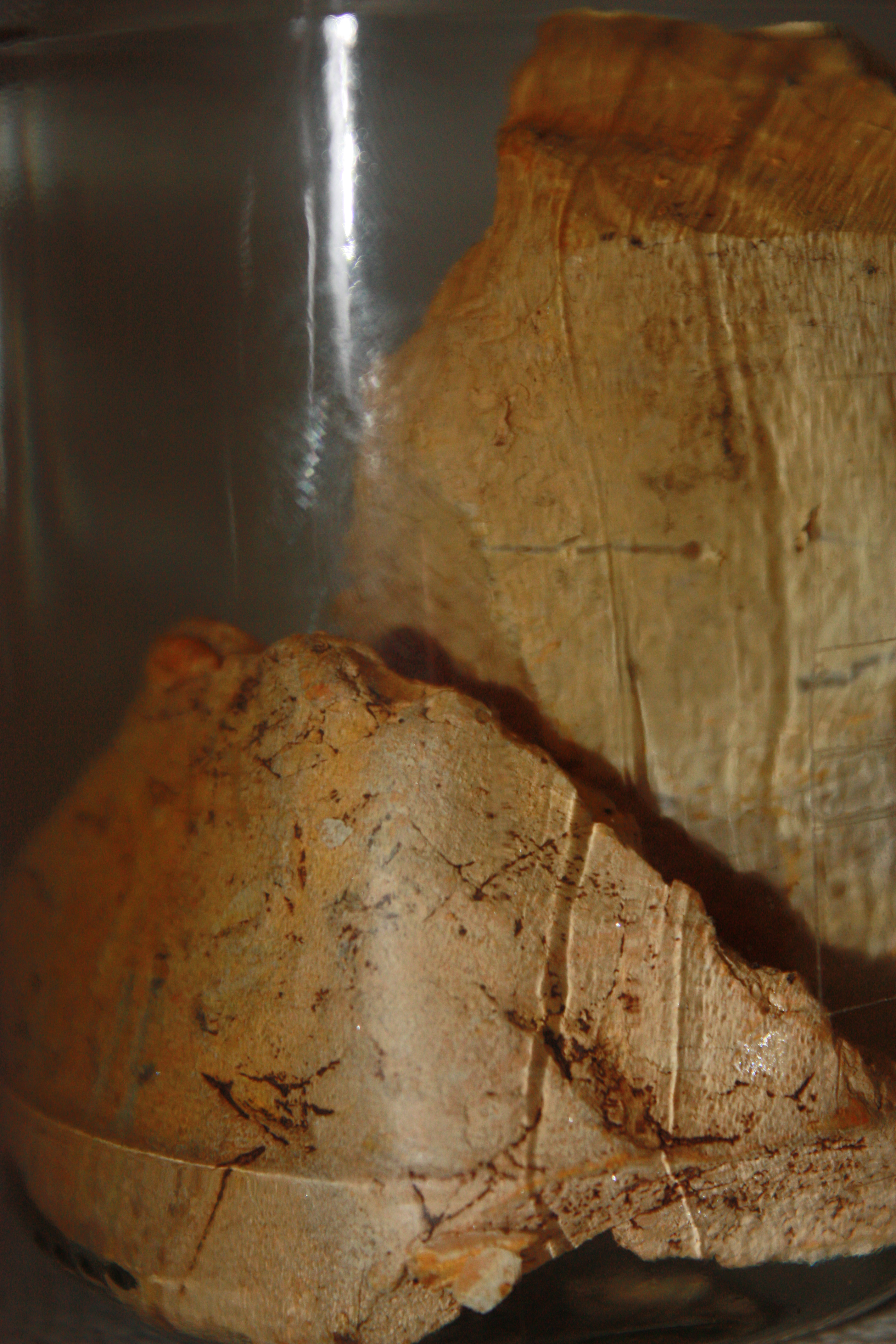 phosphorus white